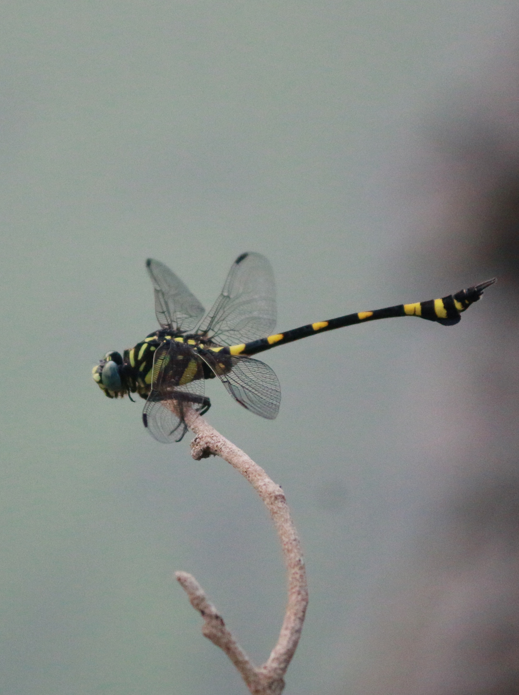 Ictinogomphus rapax male dragonfly,Common club tail